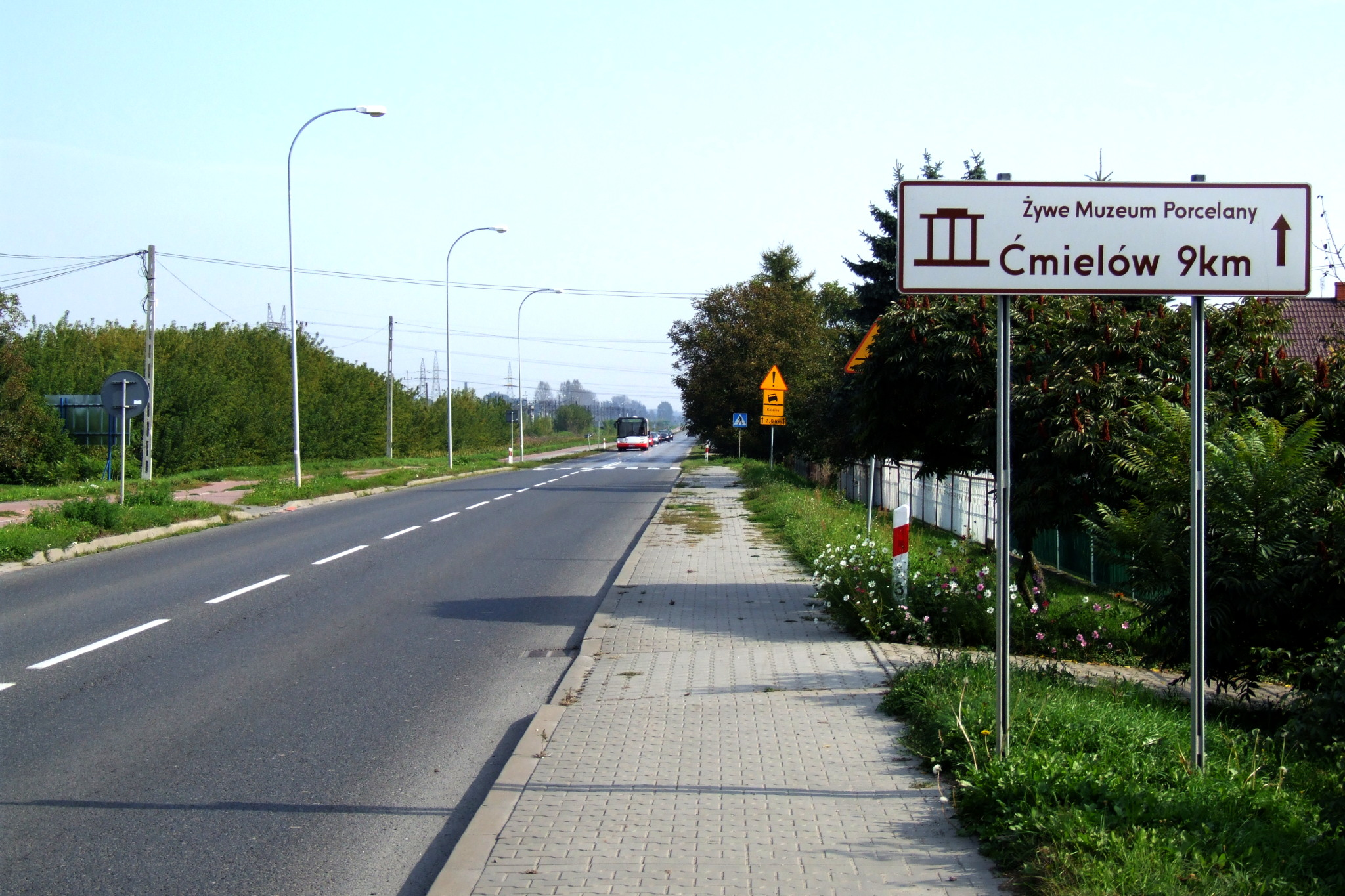 Zygmuntówka Street in Ostrowiec Swietokrzyski (part of DW755), Poland